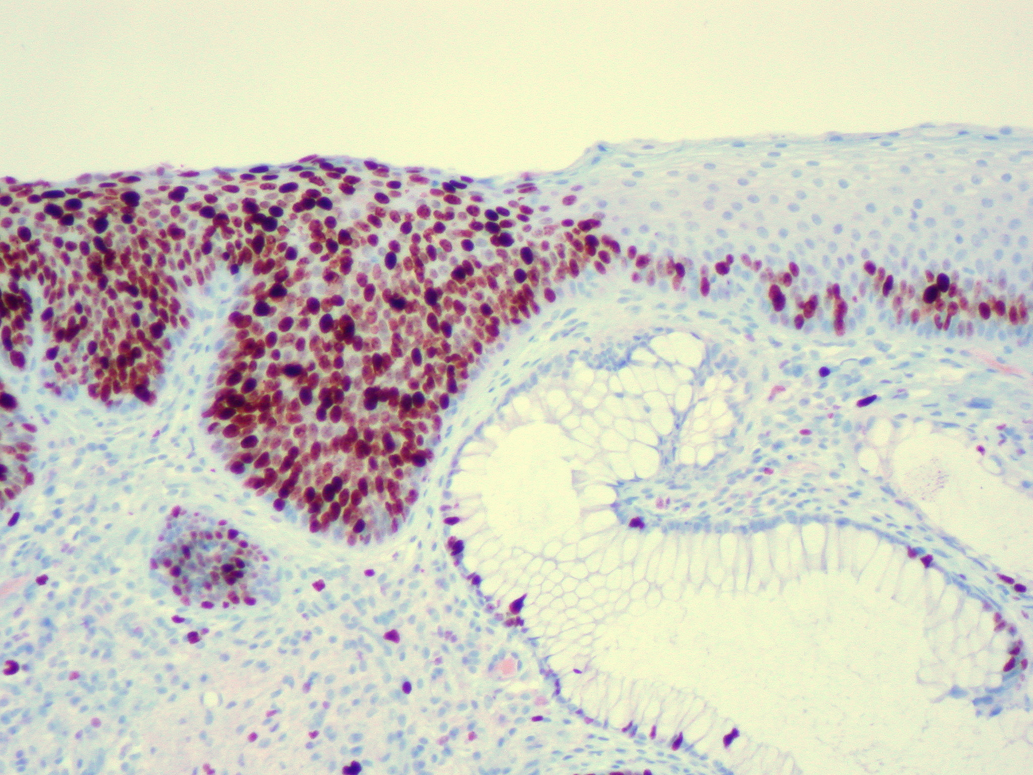 This lesion was an incidental finding on a hemorrhoidectomy specimen on a 48-year-old woman. The K-67 antigen is a proliferation marker. The lesion (on the left) shows strong nuclear reactivity throughout the thickness of the epithelium, while the normal mucosa shows reactivity only in the basal layer, where proliferation normally occurs.